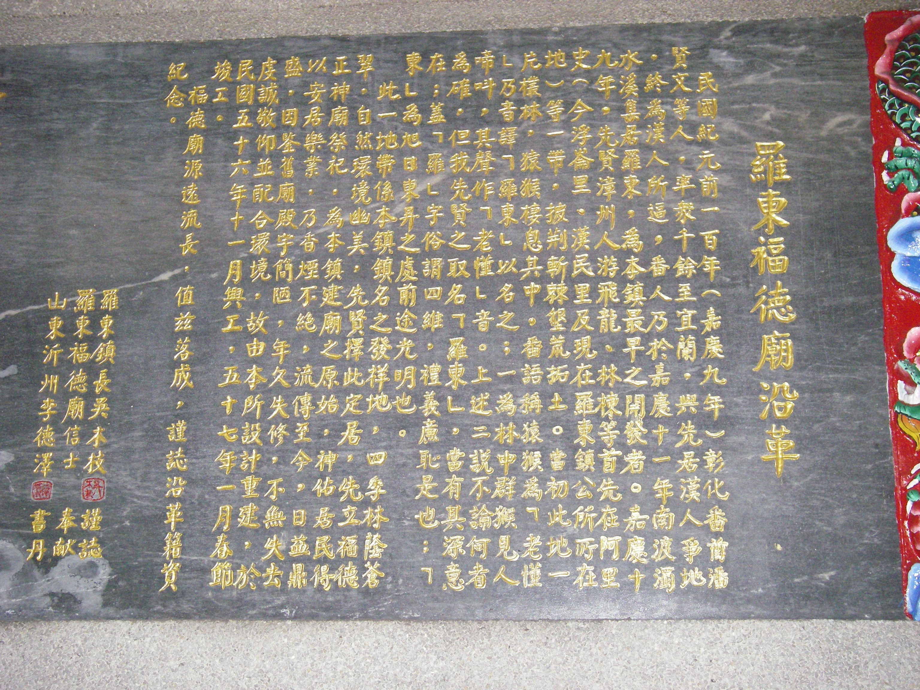 The inscrption in Luodong's Fude Temple located in the Luodong Night Market, narrating the origin of the nomenclature of Luodong.